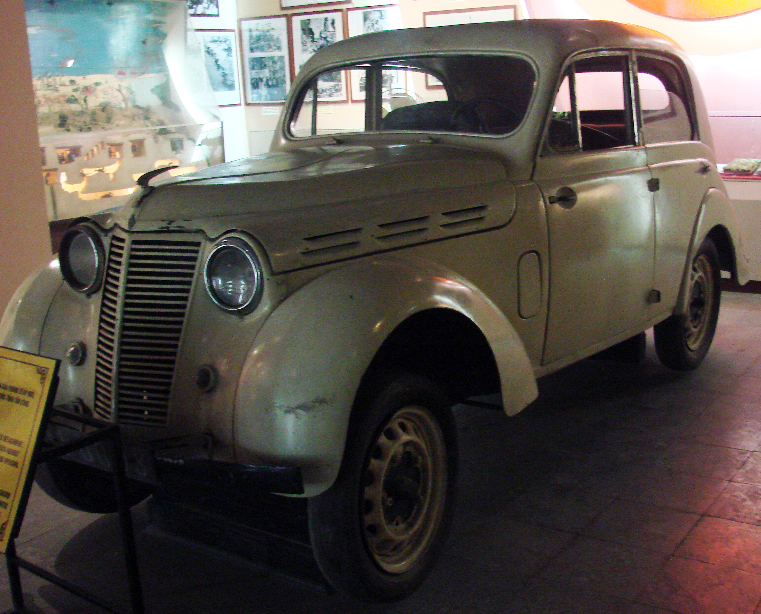 A four-door Renault Juvaquatre used by Nguyen Tan Mieng of the "Inner Saigon Special Mobile Detachment" during the 1968 Tet uprising